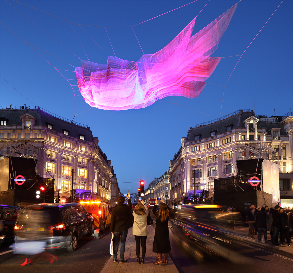 1.8 in London, UK.